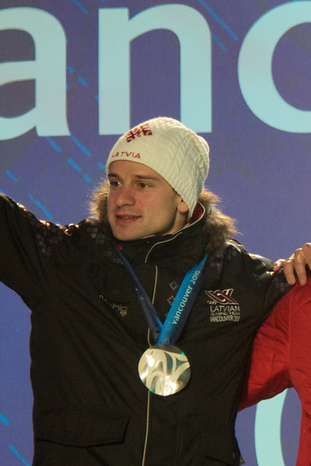 Skeleton at the 2010 Winter Olympics – Men's. The Medal Ceremony at Whistler on Day 9 of the Vancouver 2010 Winter Olympics. - Martins Dukurs